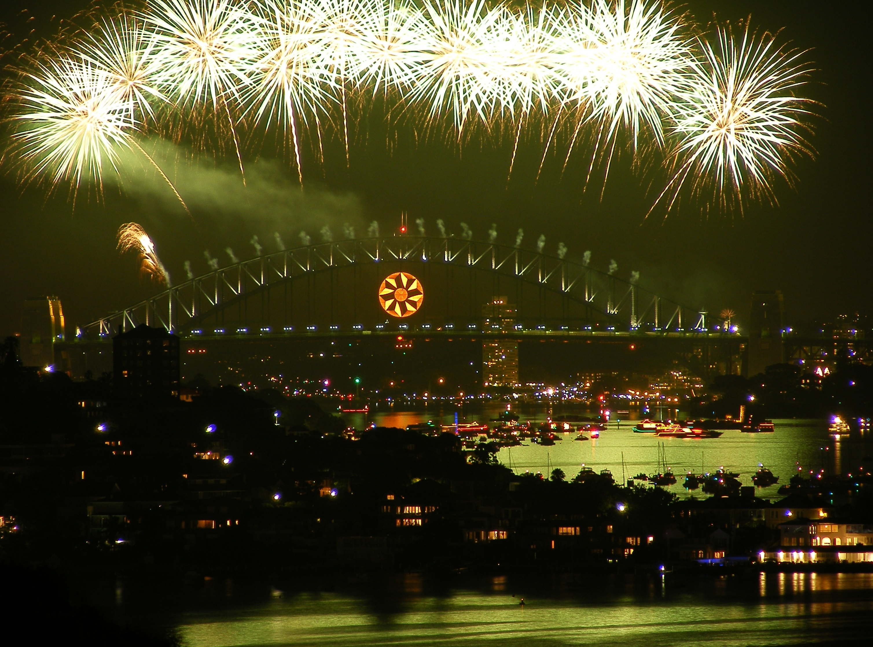 Fireworks on Sydney Harbour 31/12/2008